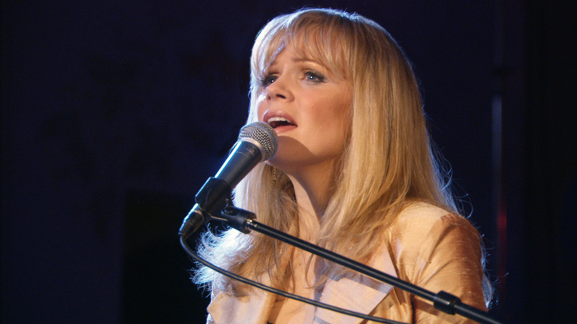 Croatian singer Tajči at St. Jerome's Church in Chicago.